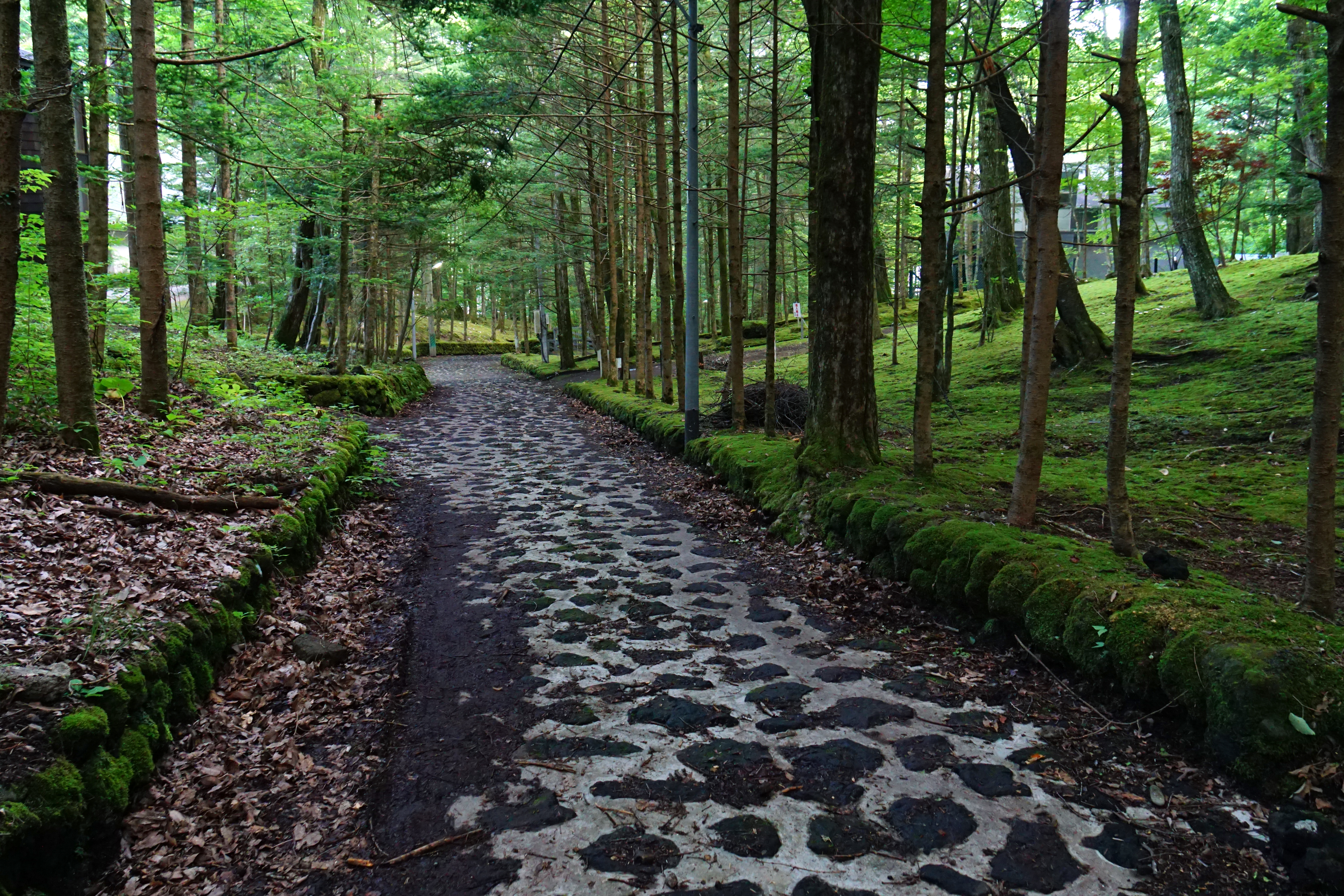 Happy_Valley in Karuizawa, Nagano prefecture, Japan